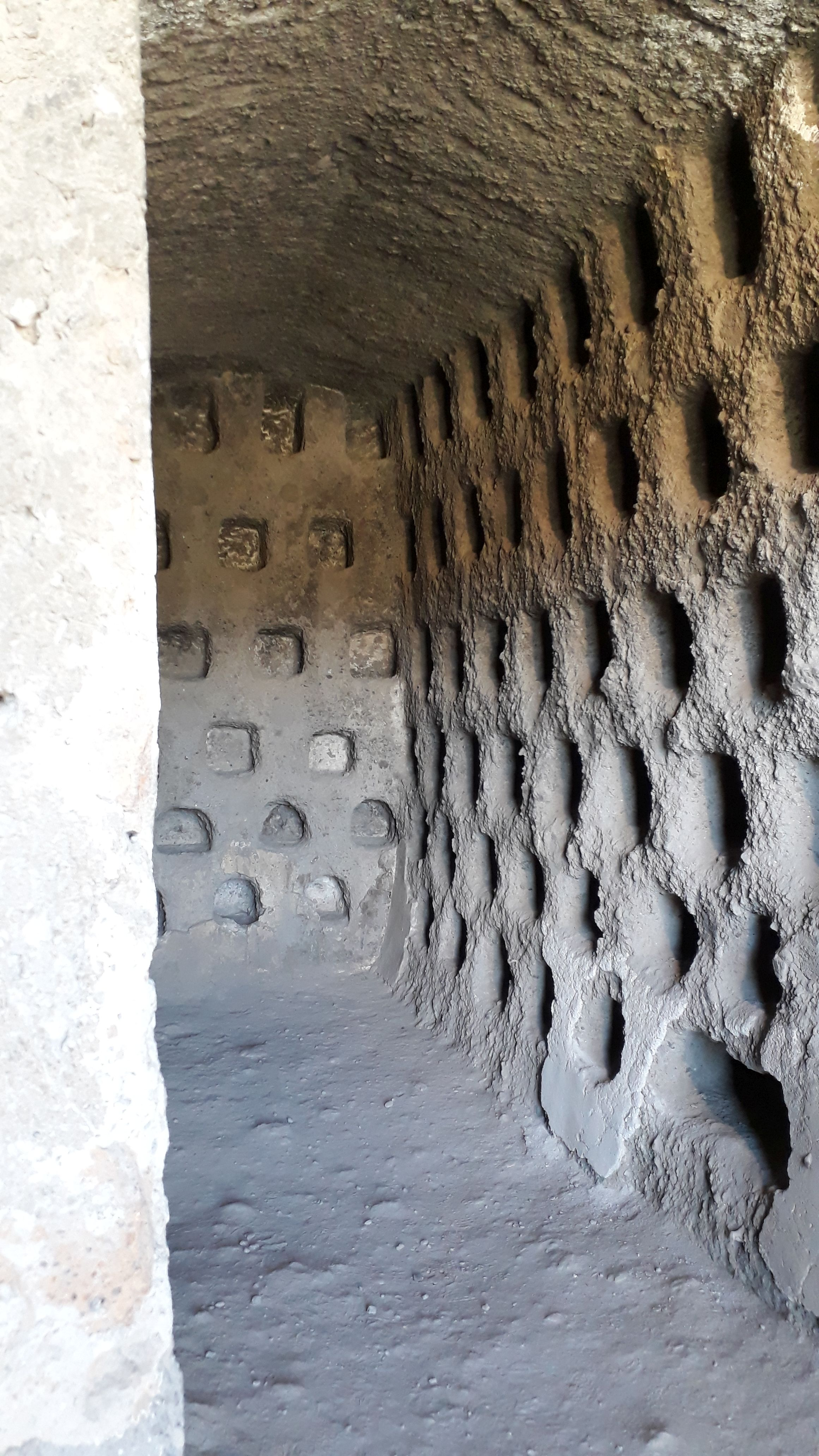 "Underground City" in Orvieto, Italy.